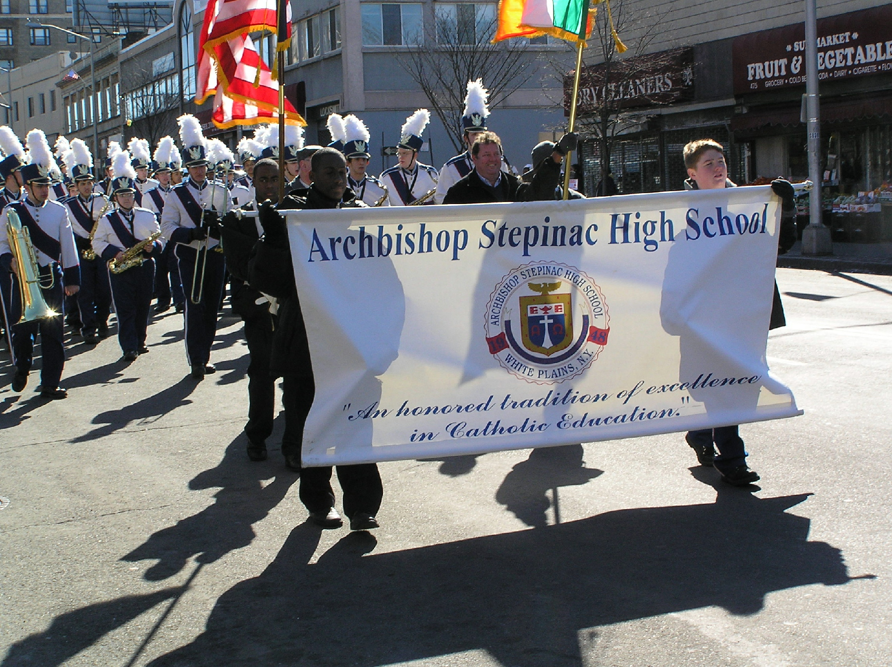 Archbishop Stepinac High School participates in the Saint Patrick's Parade in Yonkers, New York